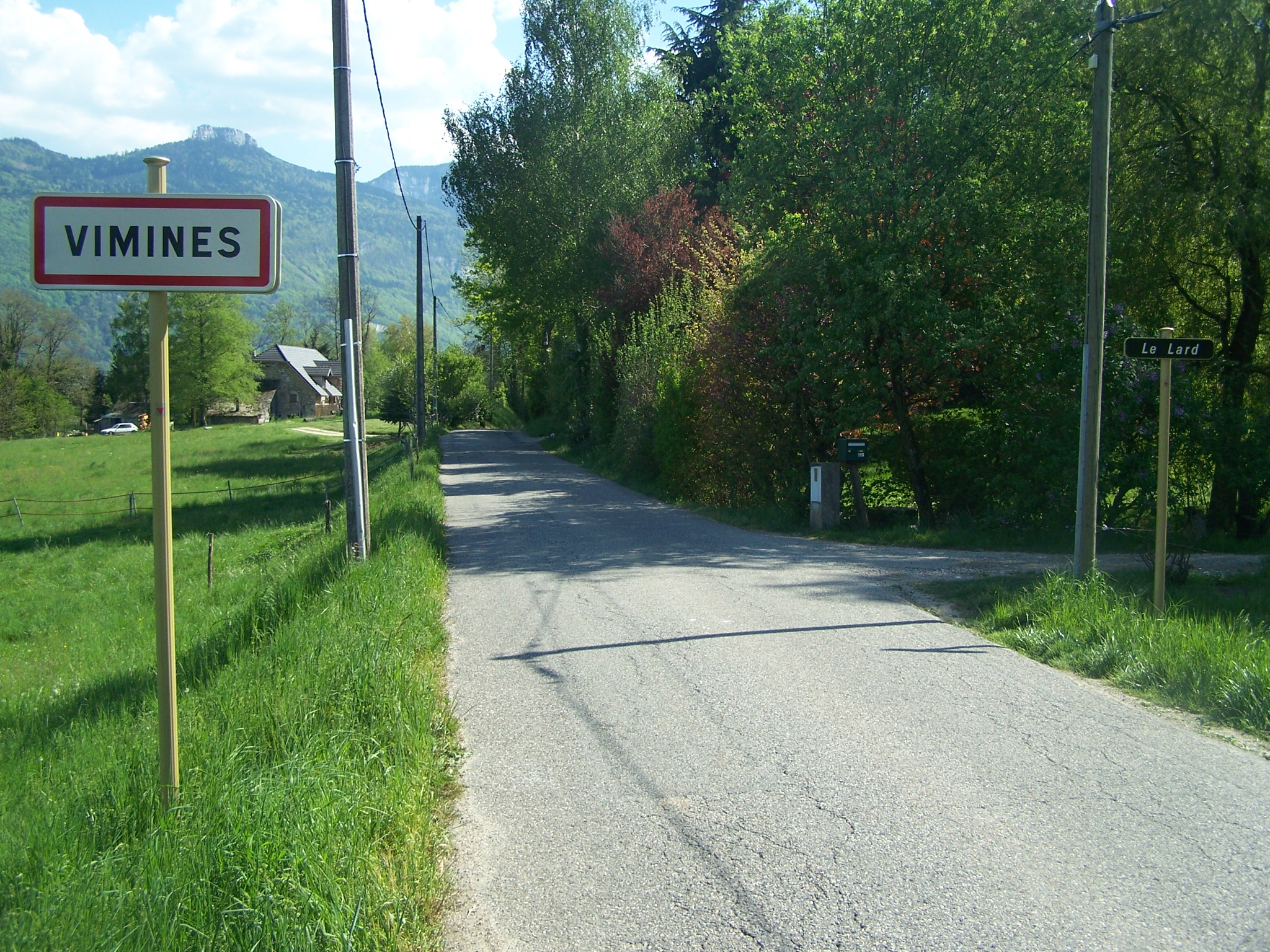 Roadsign of the French commune of Vimines in the surroundings of Chambéry in Savoie.